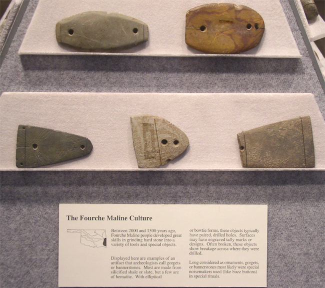 Stone gorgets and bannerstones from the Fourche Maline culture.